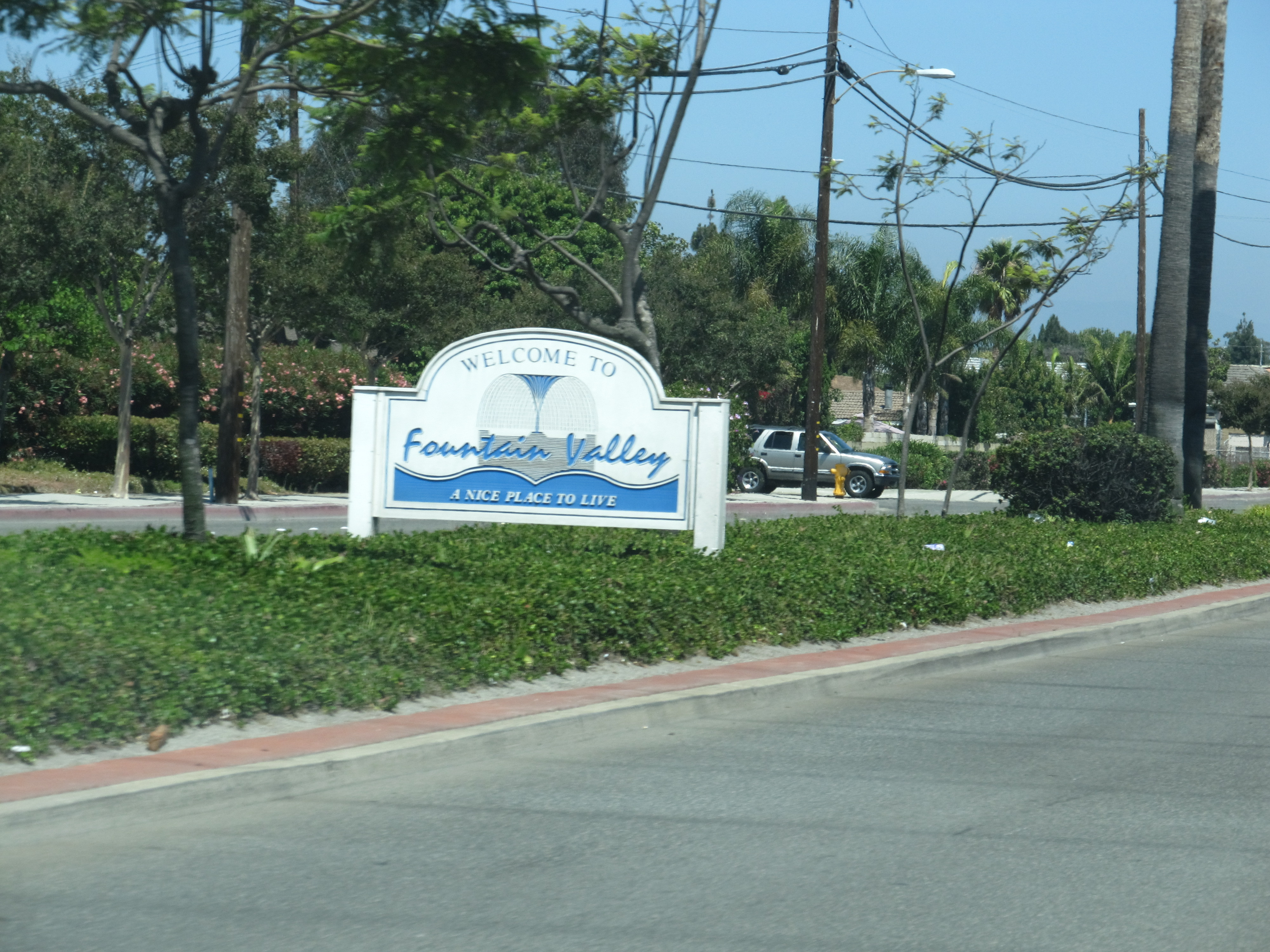 Fountain Valley is a city in Orange County, California. The population was 55,313 at the 2010 census. A classic bedroom community, Fountain Valley is a middle-class residential area. The area encompassing Fountain Valley was originally inhabited by the Tongva people. European settlement of the area began when Manuel Nieto was granted the land for Rancho Los Nietos, which encompassed over 300,000 acres (1,200 km2), including present-day Fountain Valley. Control of the land was subsequently transferred to Mexico upon independence from Spain, and then to the United States as part of the Treaty of Guadalupe Hidalgo. The city was incorporated in 1957, before which it was known as Talbert (also as Gospel Swamps by residents). The name of Fountain Valley refers to the very high water table in the area at the time the name was chosen, and the many corresponding artesian wells in the area. Early settlers constructed drainage canals to make the land usable for agriculture, which remained the dominant use of land until the 1960s, when construction of large housing tracts accelerated As a suburban city, most of Fountain Valley's residents commute to work in other urban centers. However, in recent years, the city has seen an increase in commercial jobs in the city, with the growth of a commercial center near the Santa Ana River known as the "Southpark" district.